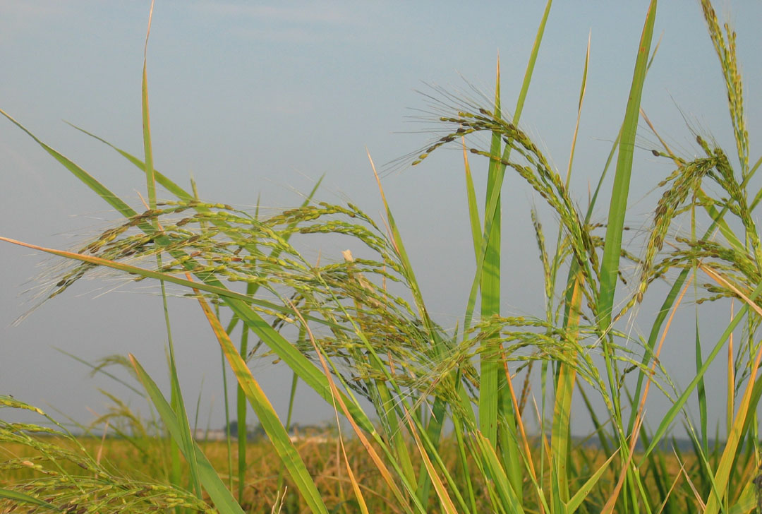 Red rice is a Crop 'mimic' that reduces yield, and produces undesirable red seeds. Oryza sativa.